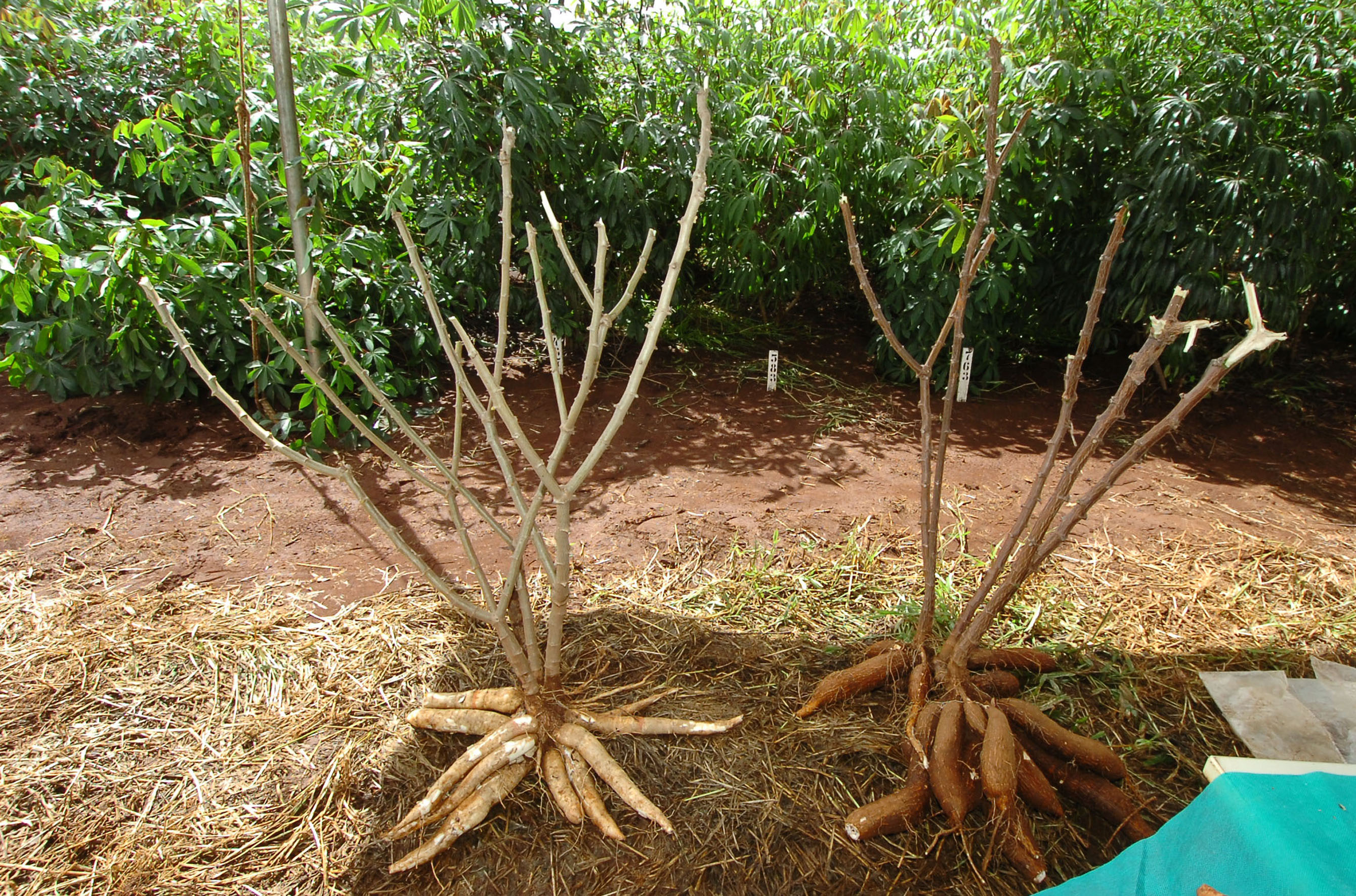 News species of cassava by Embrapa